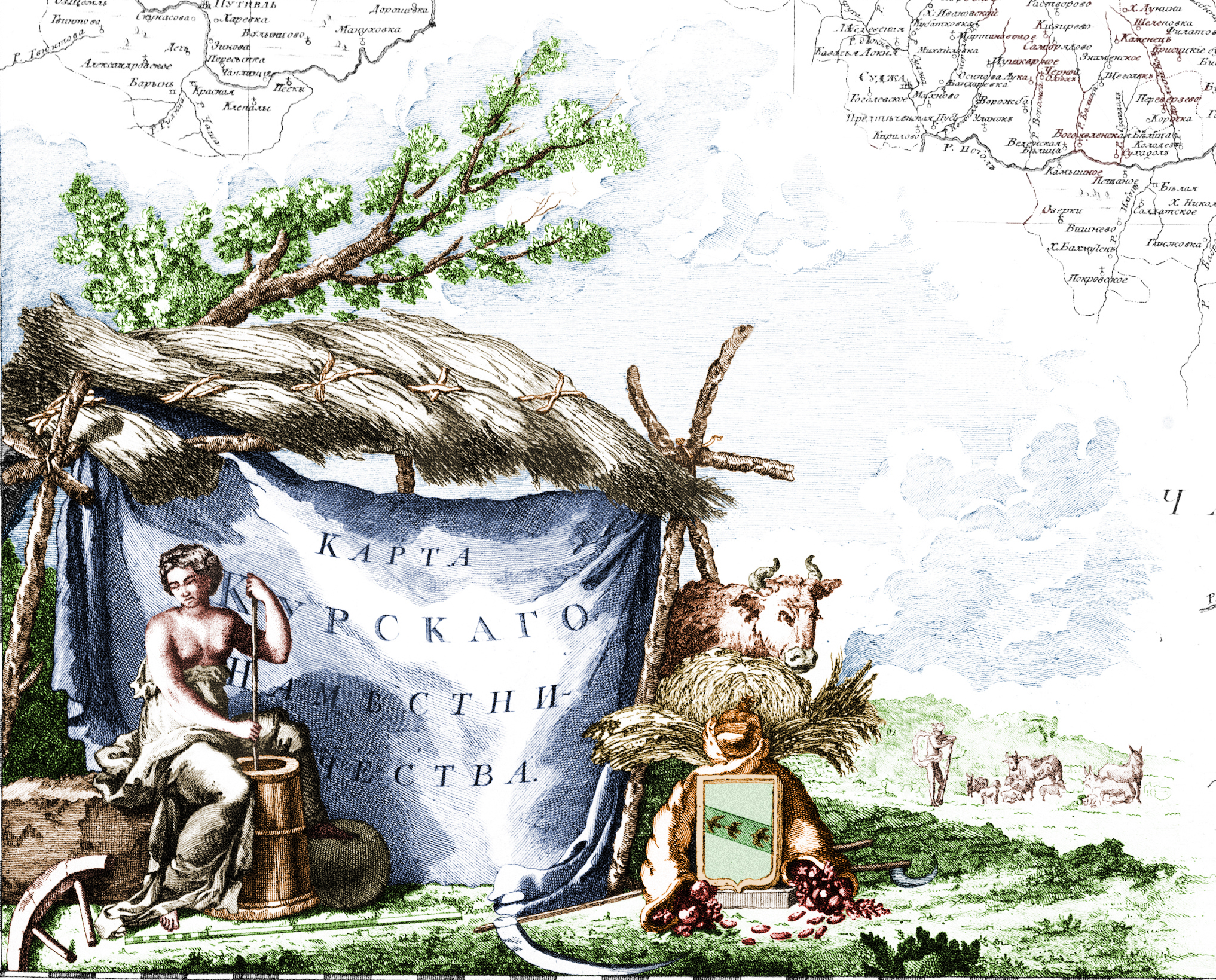 Cartouche of the map of Kursk Namestnichestvo (sheet 24) from official Atlas of the Russian Empire (1792). Cartouche symbolized agriculture as main economic sector of namestnichestvo.